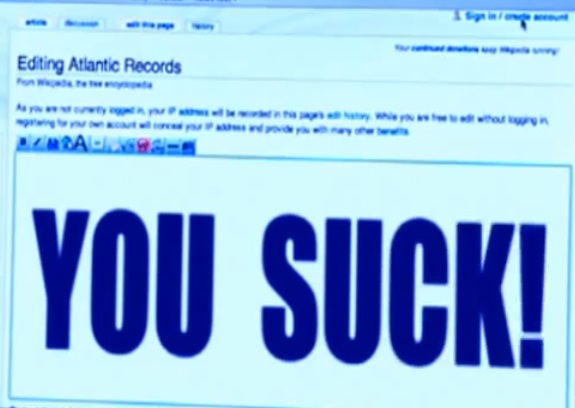 Based on a screenshot from the White & Nerdy music video, but cropped by uploader to only Free elements. It contains elements from Wikipedia (GNU FDL), elements from MediaWiki (GNU GPL), and the short phrase "YOU SUCK!" in a simple sans serif text font (not eligible for copyright). Please note that it is nearly impossible to type letters that big in an edit screen through normal means, although it may be done by using browser hacks such as Greasemonkey, Firebug or the Inspect Element feature in most browsers, or through alteration of certain MediaWiki files, if one has configuration access to the software.